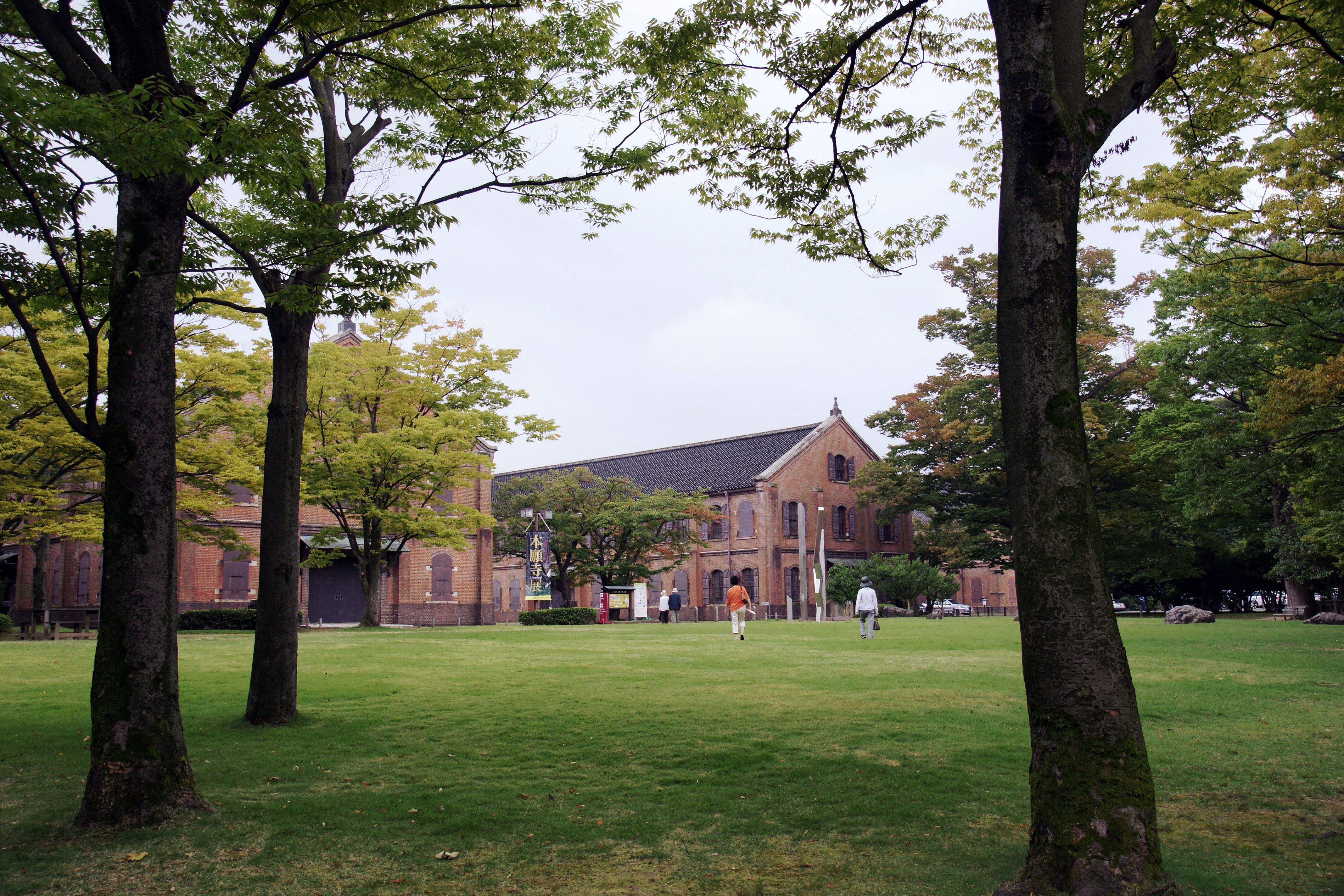 Ishikawa-ken History Museum in Kanazawa, Ishikawa prefecture, Japan